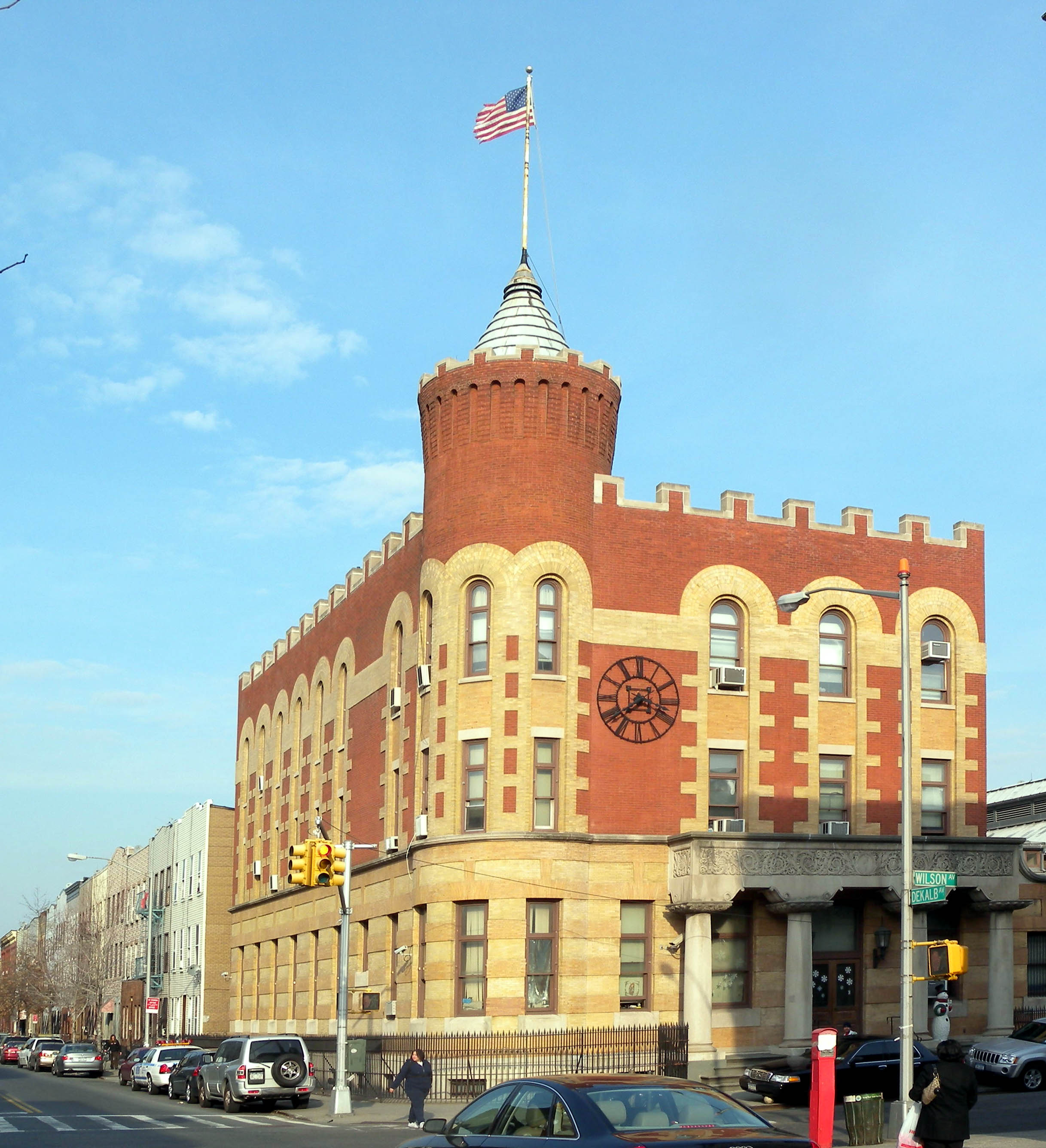 Looking east up DeKalb Avenue and across Wilson at the former 20th Precinct and stables of Brooklyn Police Department, now Brooklyn North Task Force, on a sunny afternoon. NYCLPC since 1997. ZIP 11237.